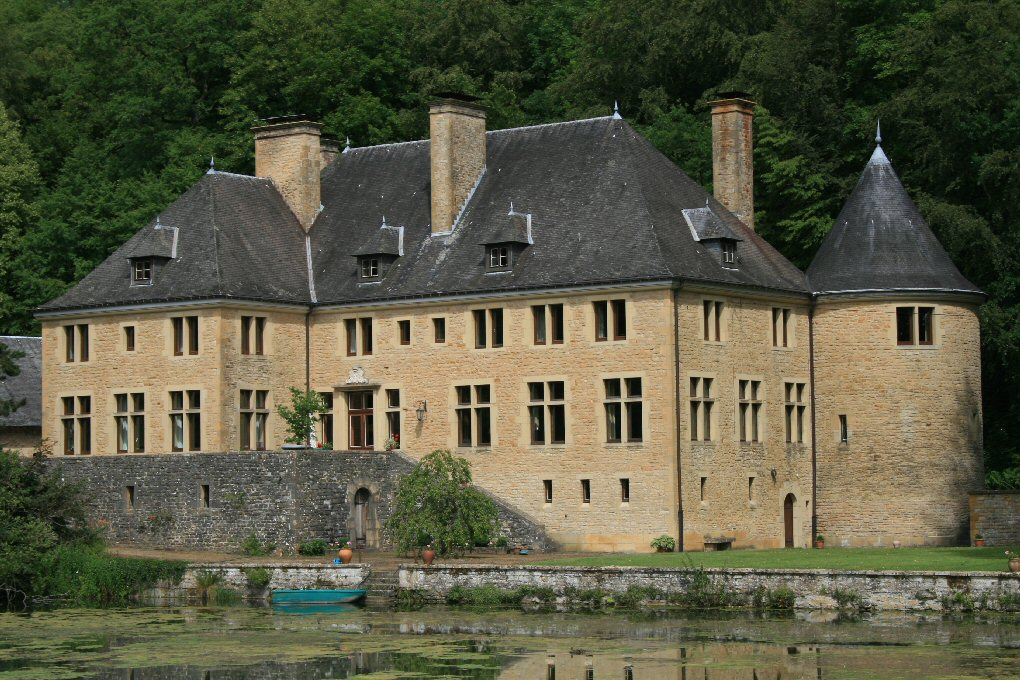 The Orval Castle, the Barons d'Otreppe de Bouvette Estate